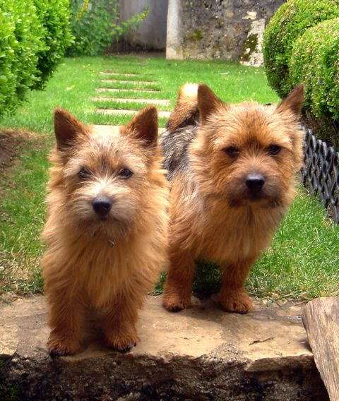 Two Norwich Terriers with the color red (left) and black & tan (right)